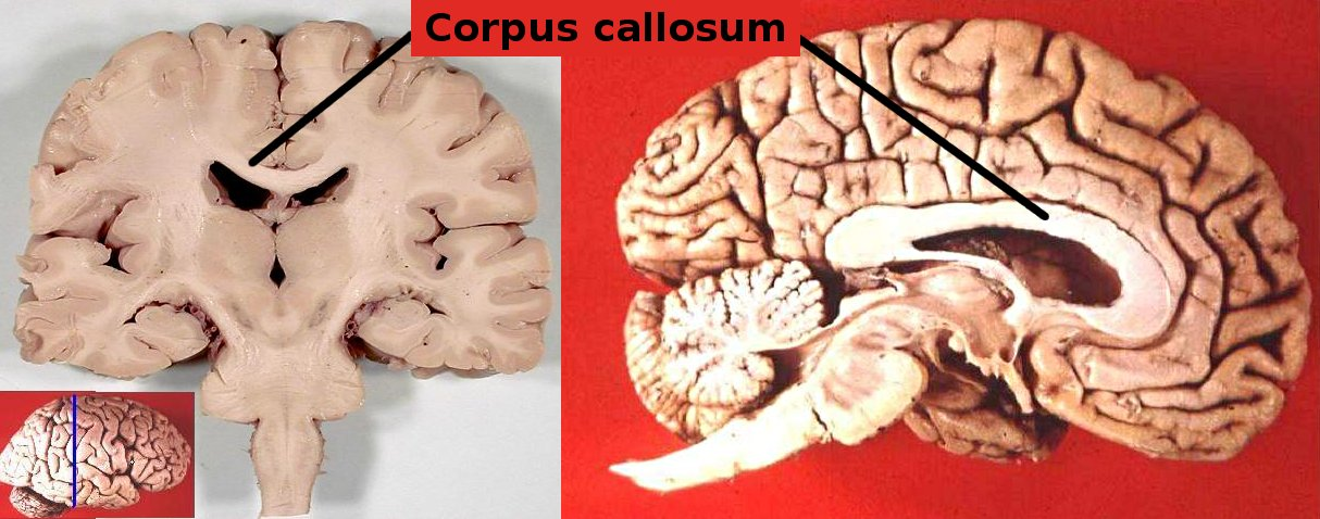 Location of the corpus callosum, the large nerve fiber bundle connecting the two cerebral hemispheres. Left: coronal section of a human brain. Right: human brain cut sagitally at the midline.